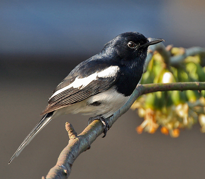 Oriental Magpie Robin (Copsychus saularis) in Kolkata, West Bengal, India.